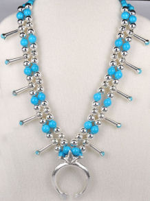 squash blossom necklace